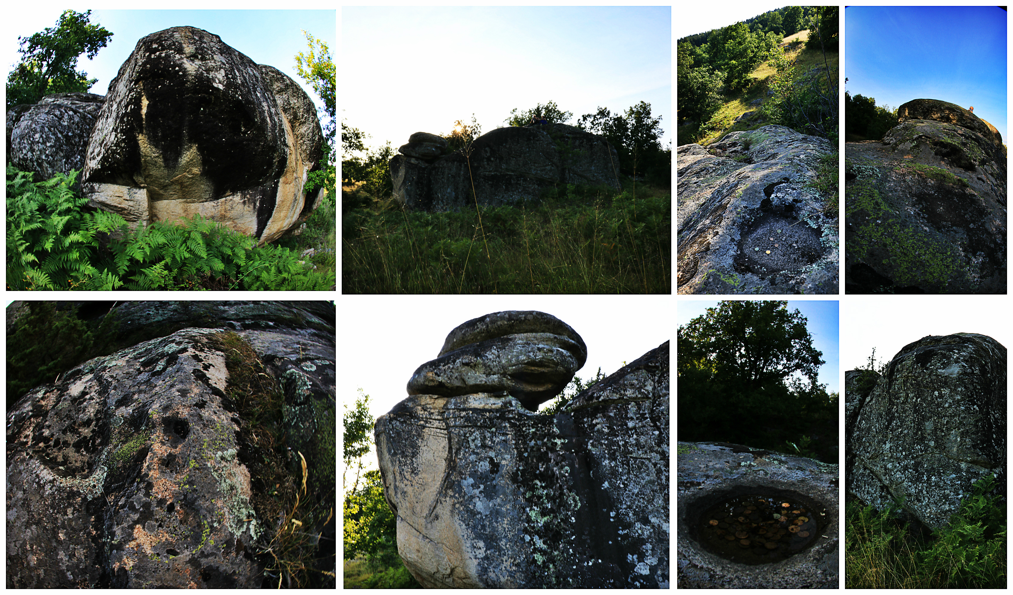 Golemiot_kamen_Dolen